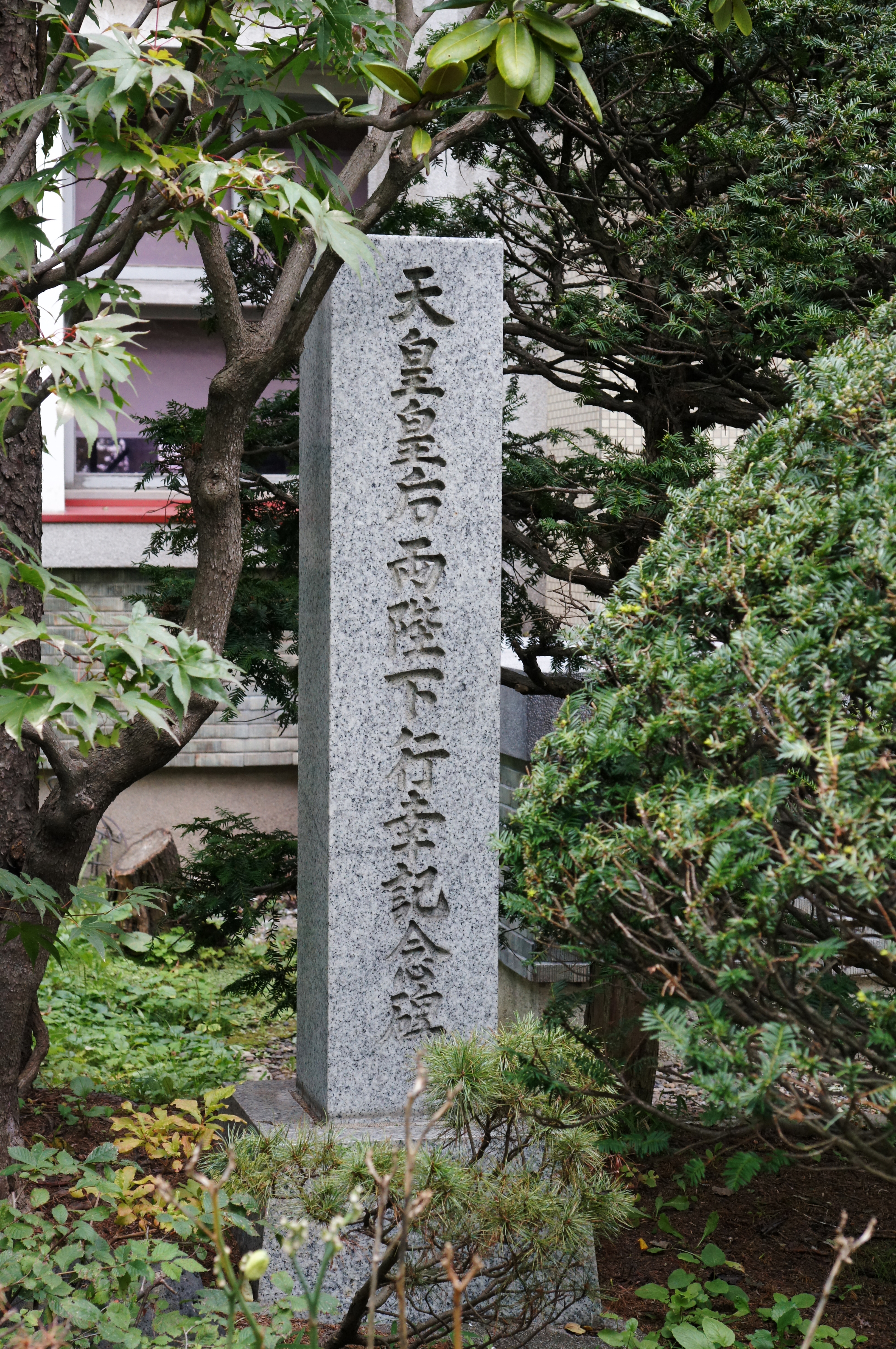 Abashiri City Folk Museum in Abashiri, Hokkaido prefecture, Japan